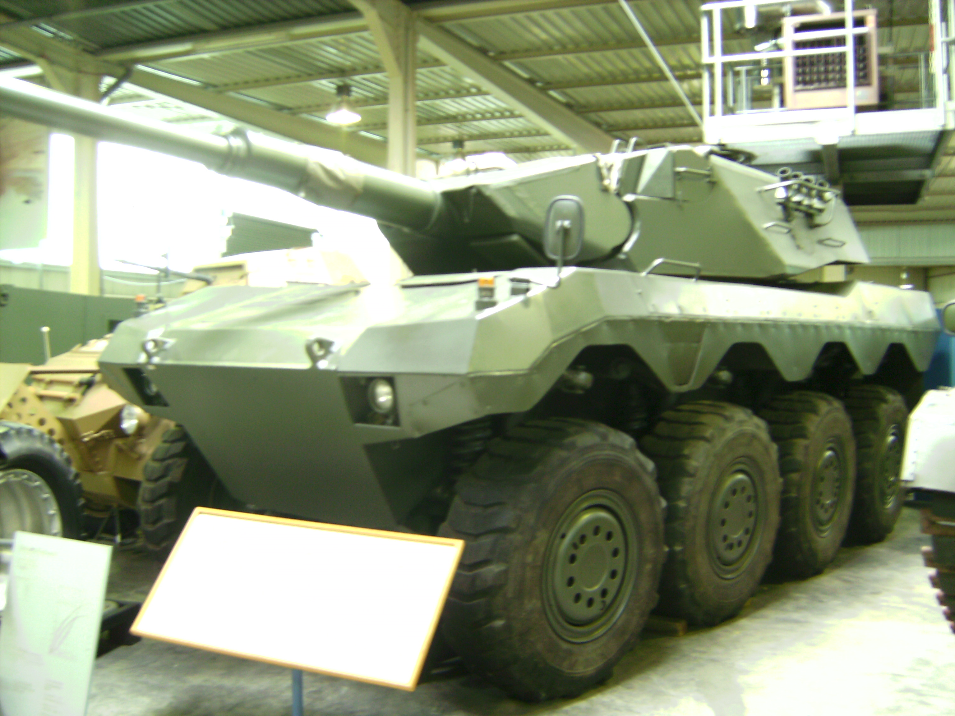 Daimler-Benz Prototype 8 wheel MBT "Radpanzer 90"